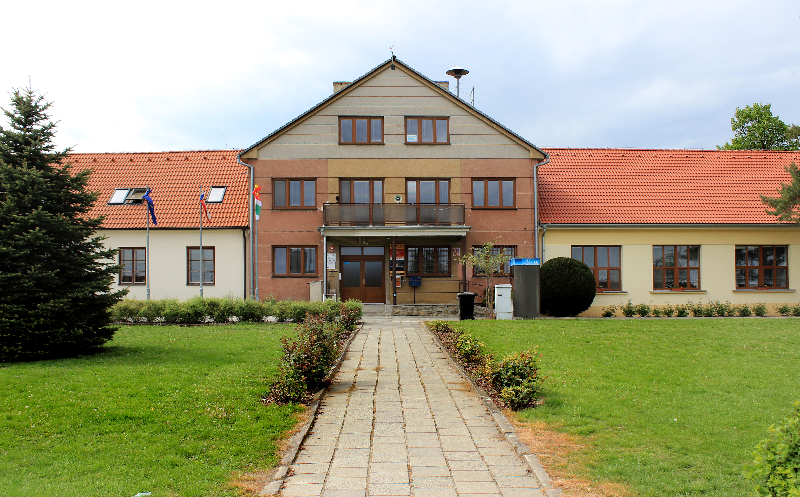 Municipal office in Vedrovice, Czech Republic.